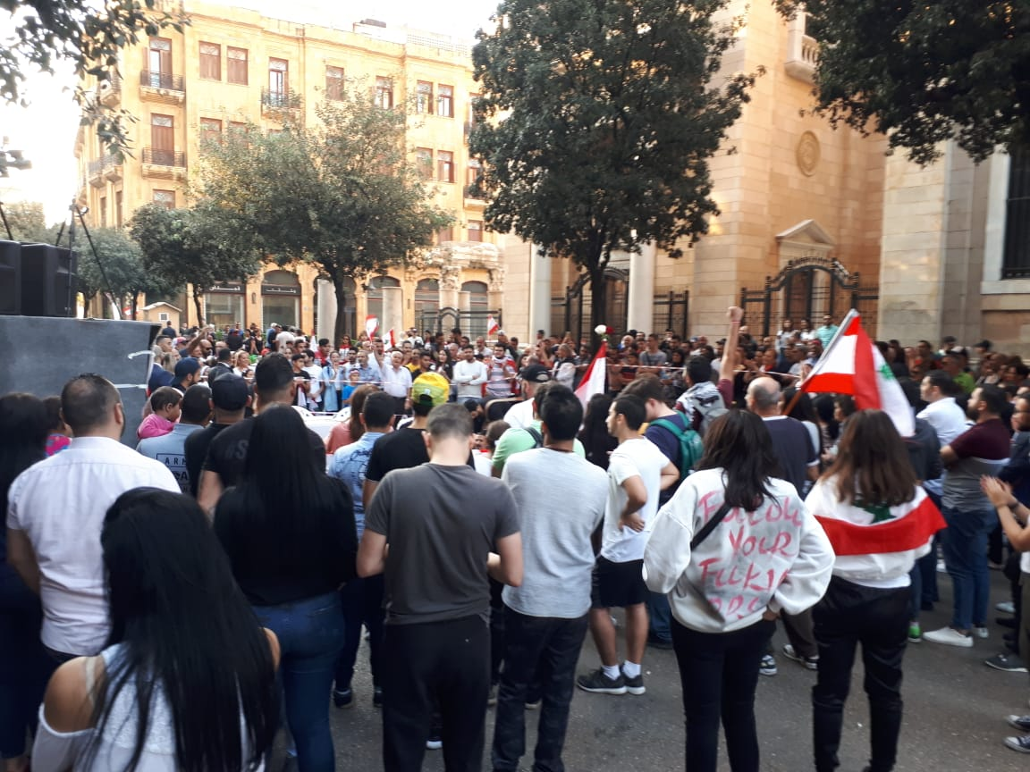 Beirut protests, 17 November 2019